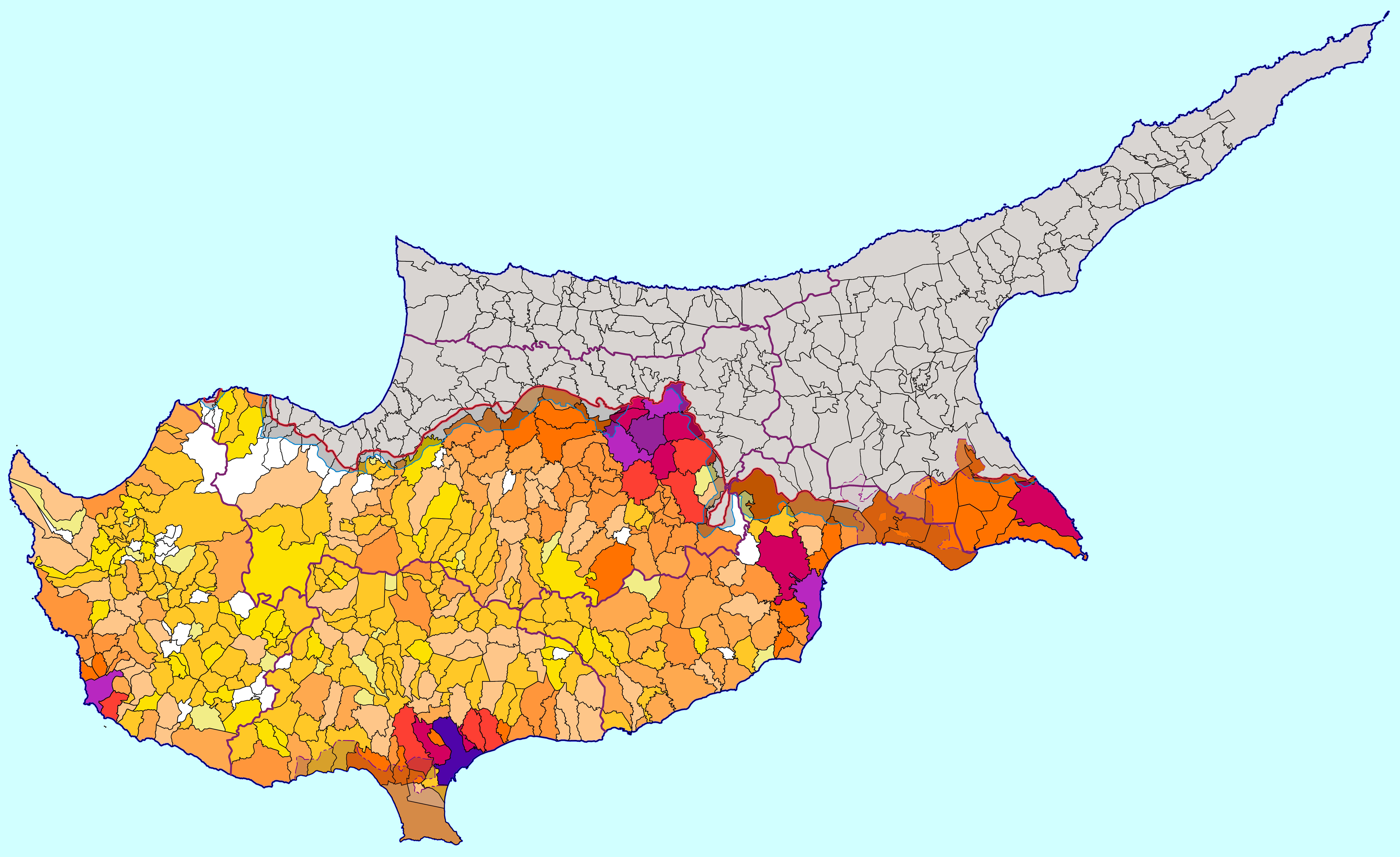 Population map of Cyprus, showing not the density but the number of population in the government-controlled areas of Cyprus